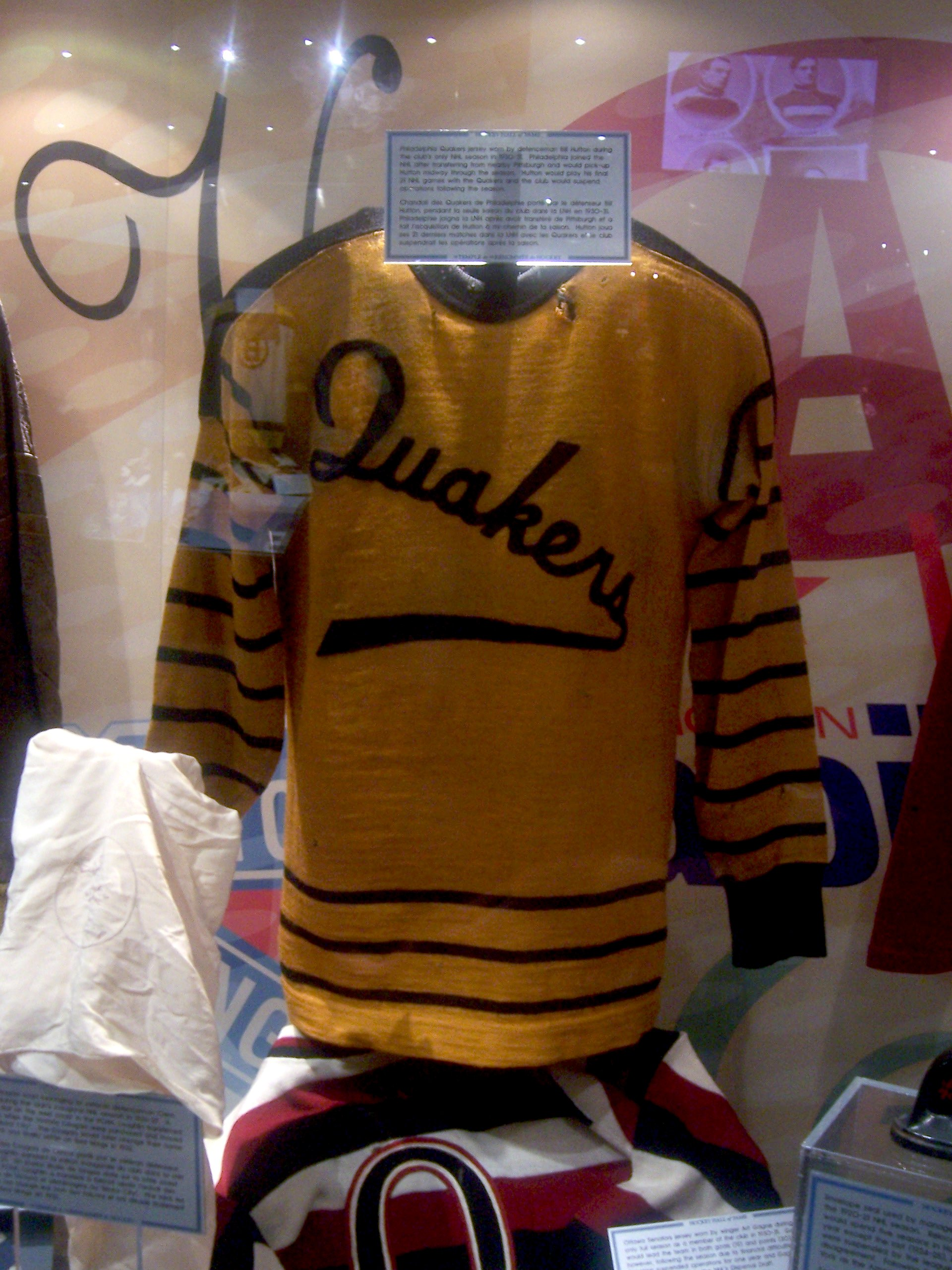 A jersey from the now defunct Philadelphia Quakers.